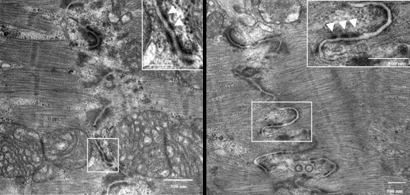 Transmission electron microscopy of the intercellular junction between two adjacent myocytes in ARVC/D. Note the presence of abnormal desmosomes, either long (arrows) or short-repeated structures (insert)